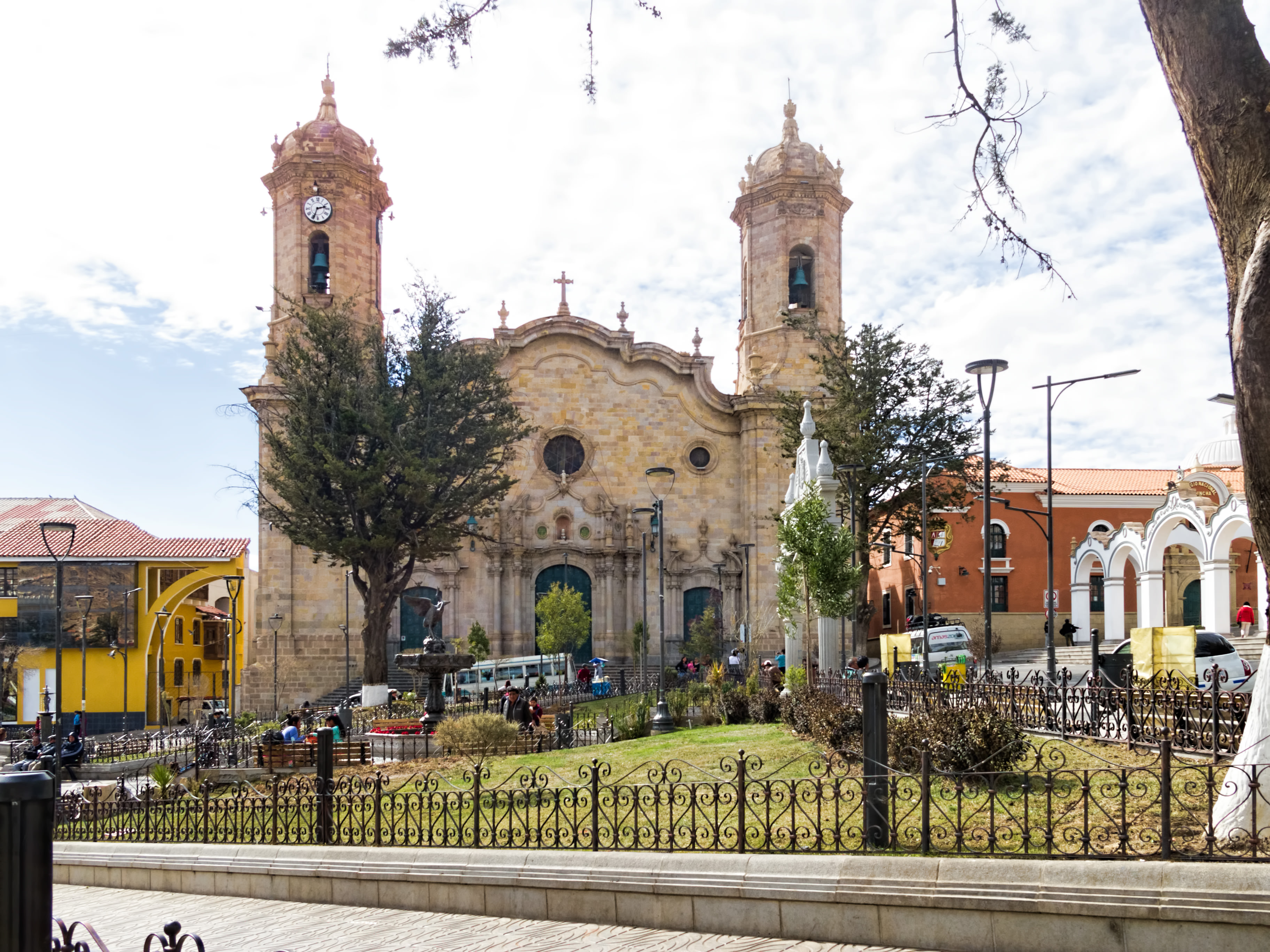 On the north side of November 10 Square stands the Cathedral. The original structure, which was built starting in 1564 and completed around 1600, largely collapsed in the early 19th century leading to the current neoclassical reconstruction. (The white arches on the right are part of August 6 Square commemorating when Bolivia achieved independence from Spain on 6 August 1825, the last country in Latin America to do so.) Potosí (elev. 4,090m/13,420ft) [for comparison: Lhasa, Tibet, at 3,658m/12,001ft] was founded in 1545 as a mining town at the foot of Rich Hill (Cerro Rico), the world’s largest silver deposit. An estimated 60% of all silver mined in the world during the second half of the 16th century came from Potosí which was reputed to be the world’s largest industrial complex at the time. Its population eventually exceeded 200,000 people, making it one of the largest cities in the world. Most of the mining and smelting (using mercury) was done by forced labor, both indigenous people and African slaves. As many as 8 million workers are estimated to have died between 1545 and 1825. Output began to decline in the early 19th century. By the 1890s, low silver prices prompted a change to mining tin. Growing demand for tin this century by the electronics industry has helped the local economy. Silver extraction continues on a small scale. Miguel de Cervantes’ novel “Don Quixote” describes Potosí as a land of “extraordinary richness” (chapter 71 in the second volume which was published in 1615). The City of Potosí was declared a UNESCO World Heritage Site in 1987. On Google Earth: Plaza 10 de Noviembre 19°35'21.29"S, 65°45'12.83"W Cathedral 19°35'19.67"S, 65°45'12.30"W Plaza 6 de Agosto 19°35'20.47"S, 65°45'10.16"W